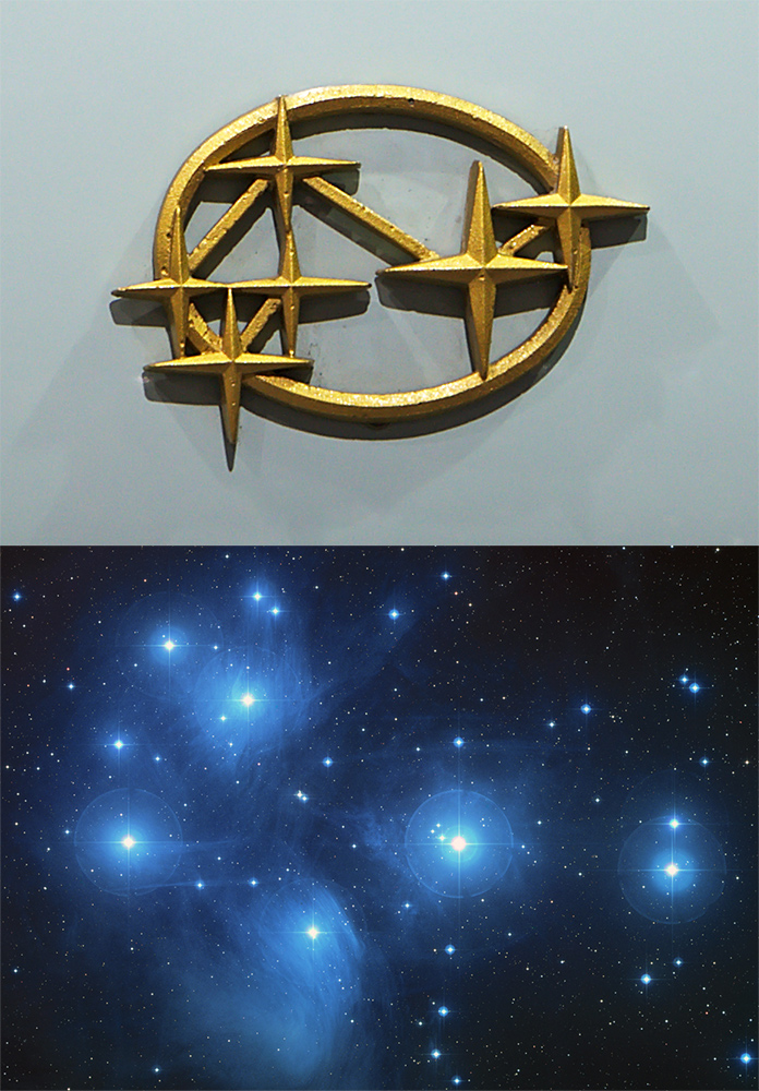 Comparison of the old logo of Subaru and the Pleiades, an open star cluster in the Taurus constellation. "Subaru" is the Japanese name of the Pleiades.